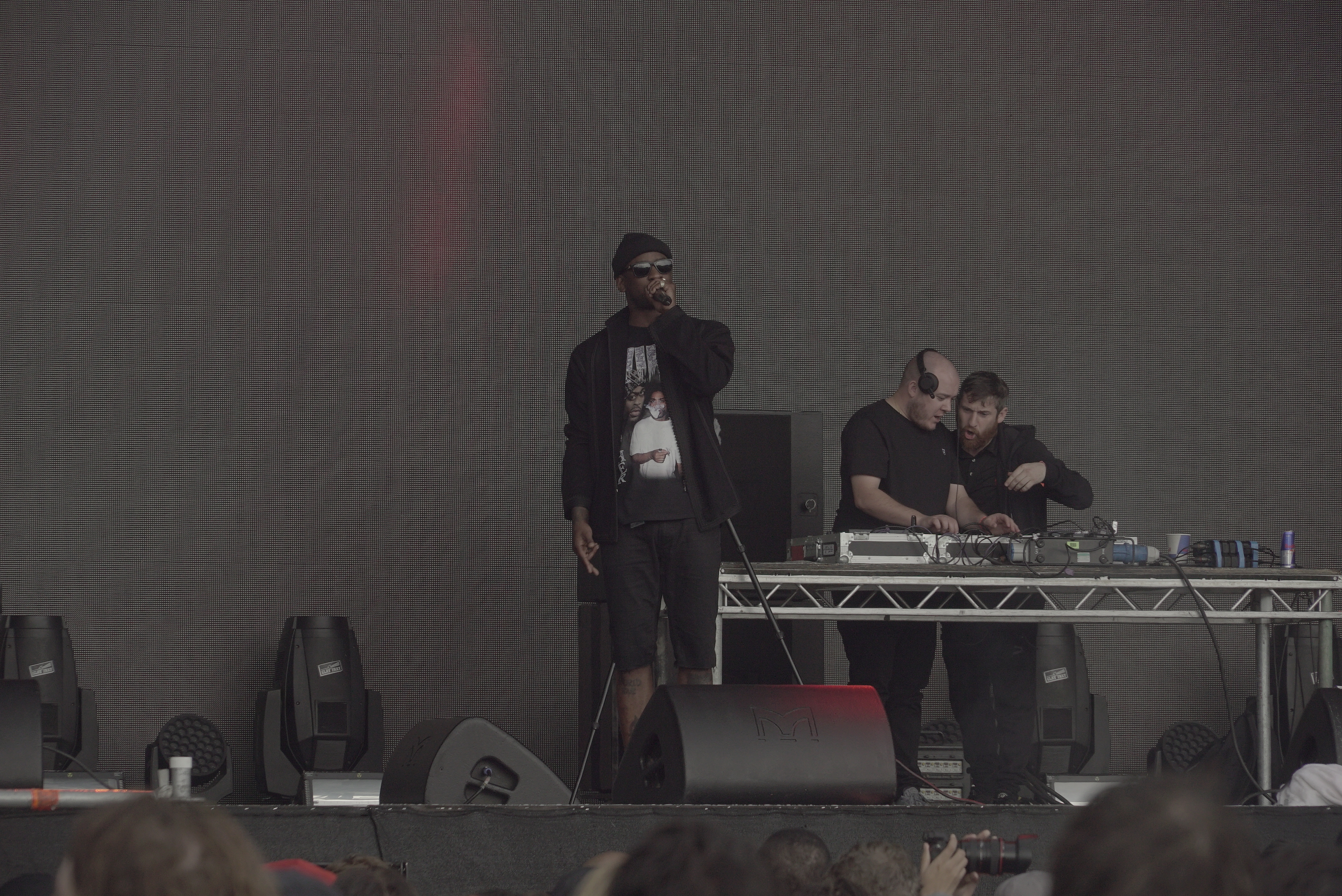 Skepta playing the main stage at Field Day, Saturday 11 June, 2016